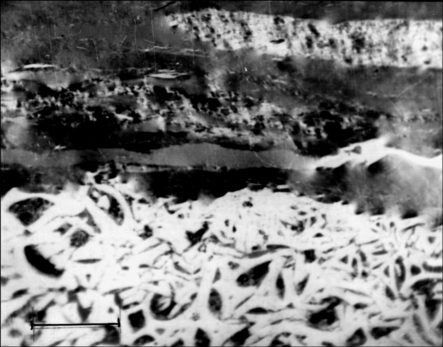 Reflected polarized light micrograph of an anthracite coal from the Donets Basin. The whitish appearing structures in the lower part of the image are cell walls of plants of the “coal swamp”. They represent the maceral fusinite, a submaceral of inertinite. The elongated structure at the upper right is semifusinite, belonging to the inertinite group as well; length of scale bar 20 µm.